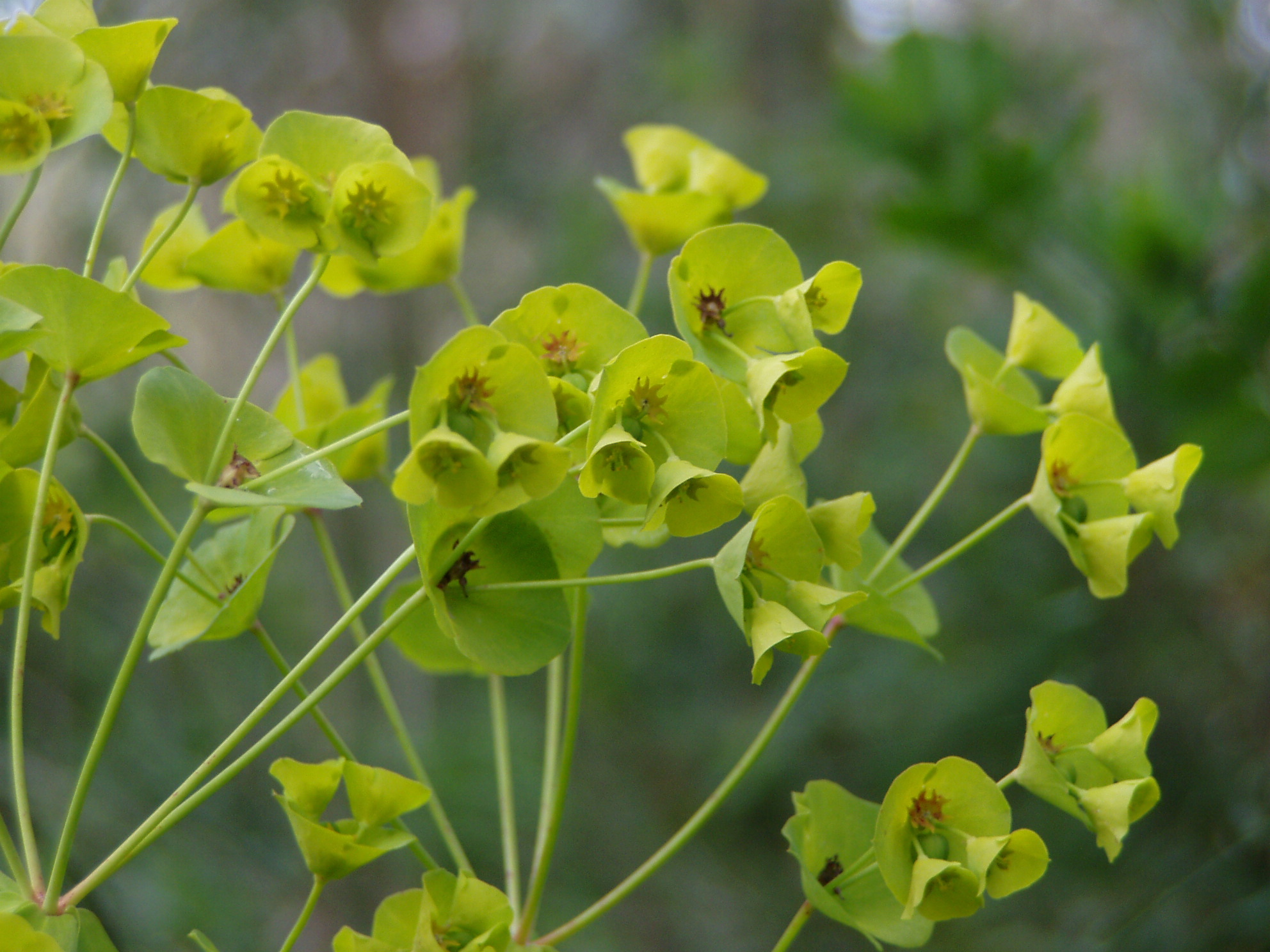 Sun Spurge. Alcobaça, Portugal.